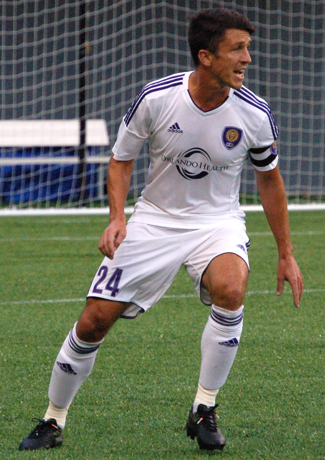 Lewis Neal Taken during USL regular season match between FC Cincinnati and Orlando City B at Nippert Stadium in Cincinnati, USA on September 17, 2016.